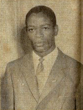 Albert Ndele, graduate in administrative and social sciences, economics, commerce and finance. Member of the College of Commissioners, Commissioner General for Finance.